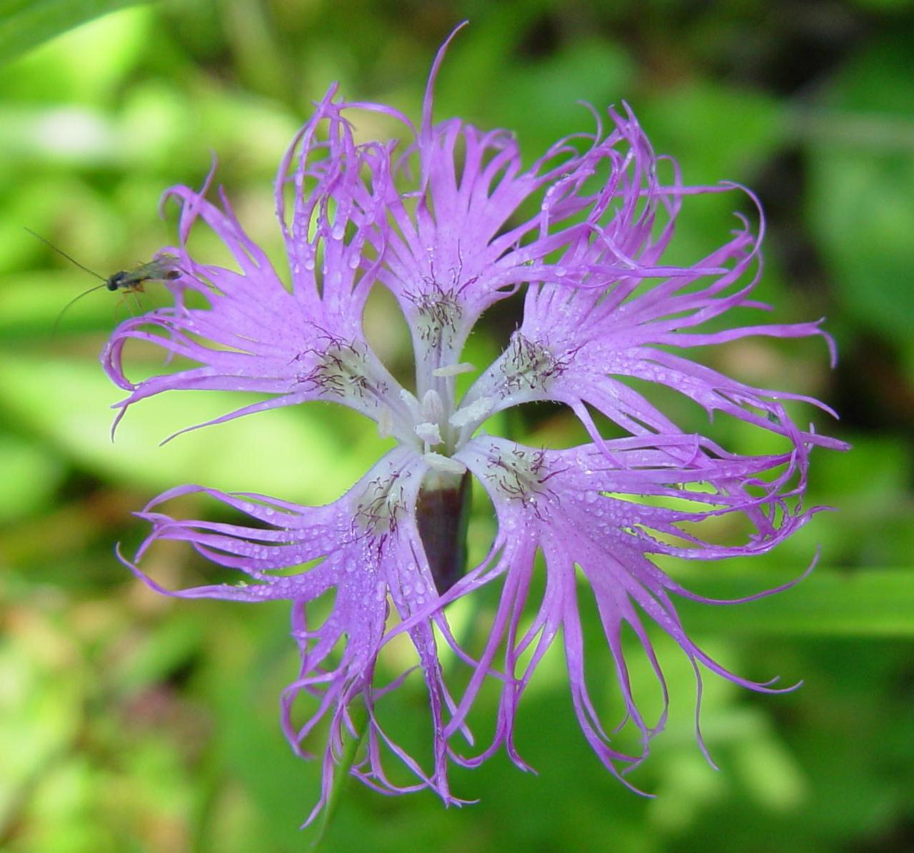 Dianthus_superbus var. speciosus, in Mount Hijiri, Akaishi Mountains, Japan.